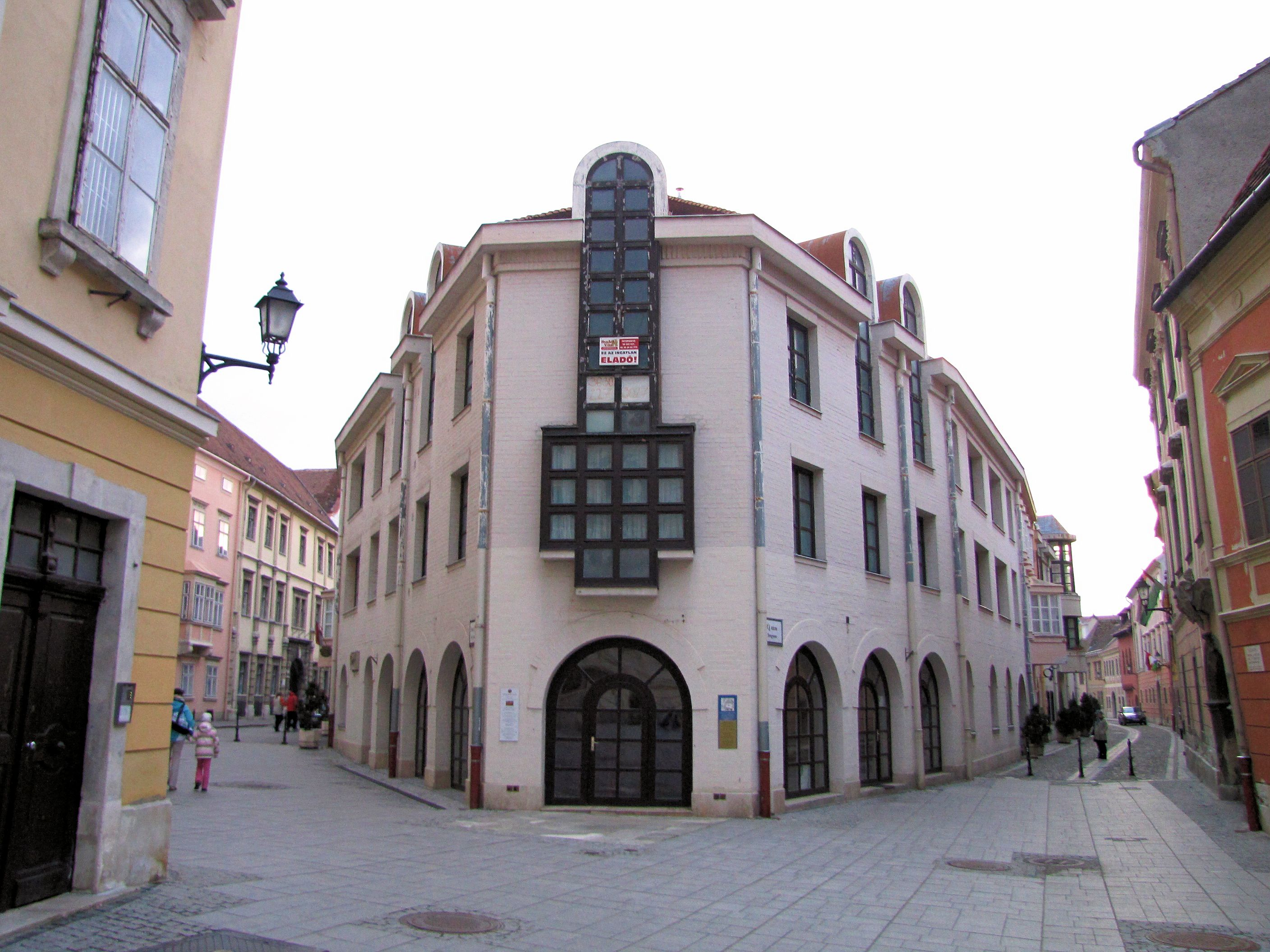 Sopron, buildings in the Center by György Kévés, 1985-1991.